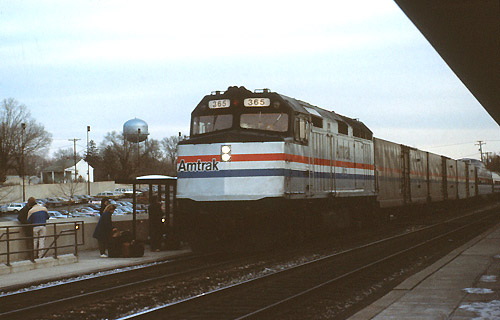 The westbound Capitol Limited at Rockville station in February 1987